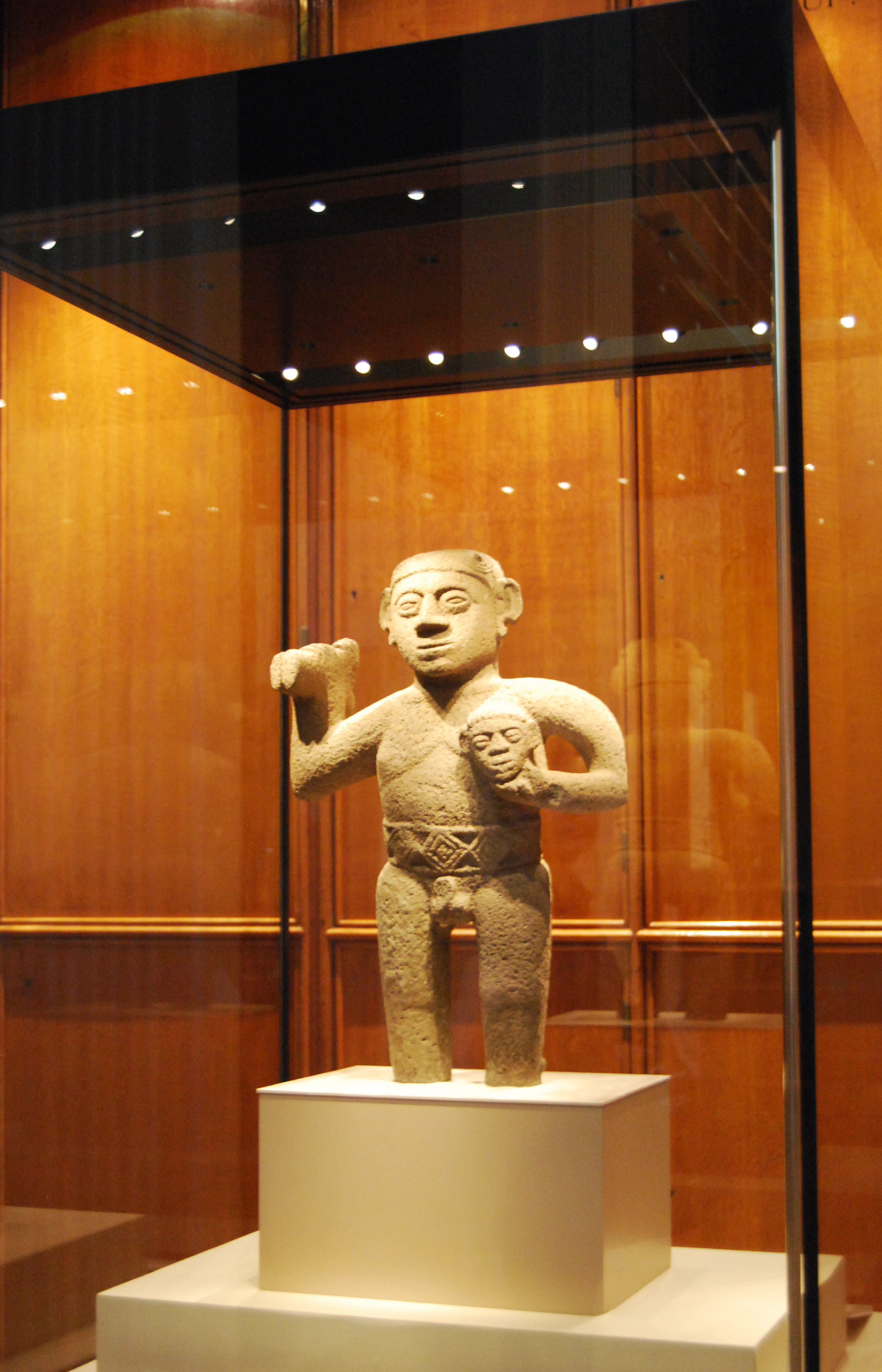 British Museum - Warrior holding a trophy head